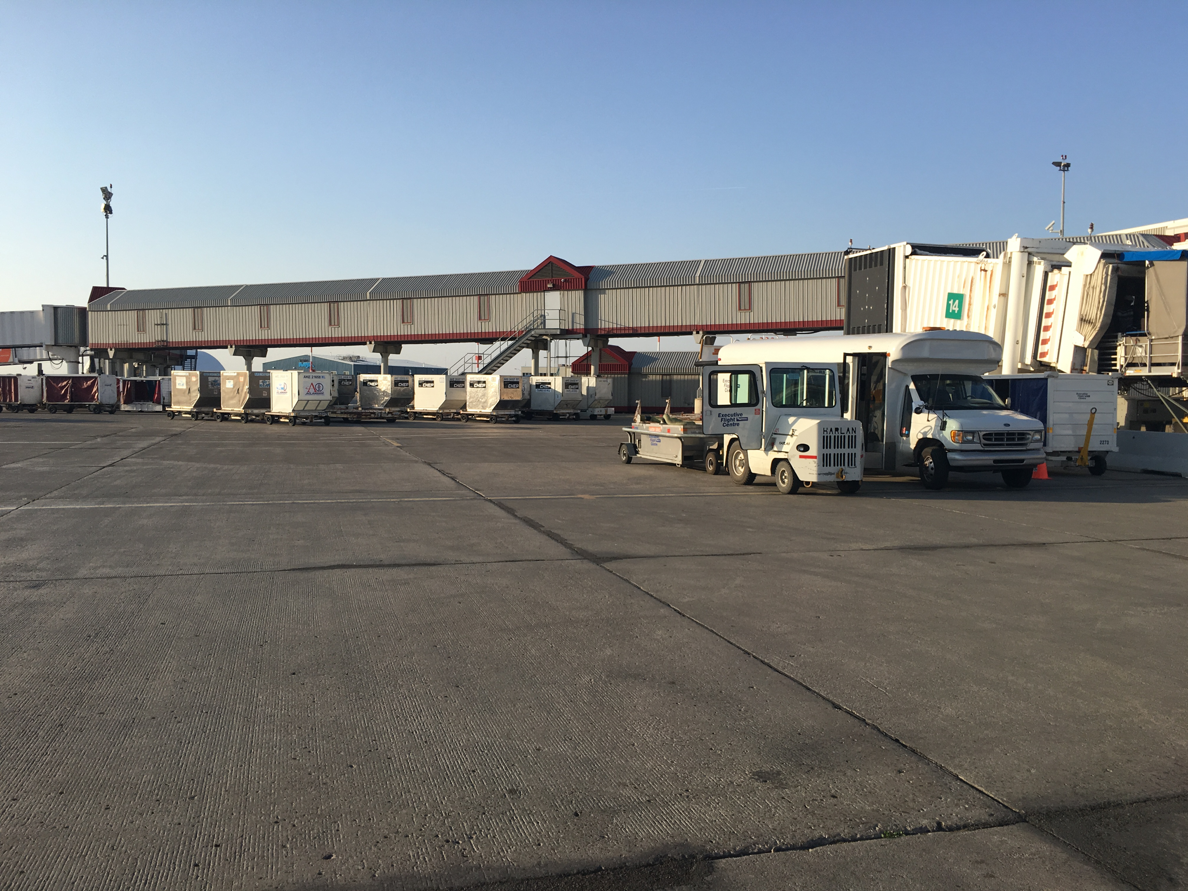 Edmonton international airport YEG